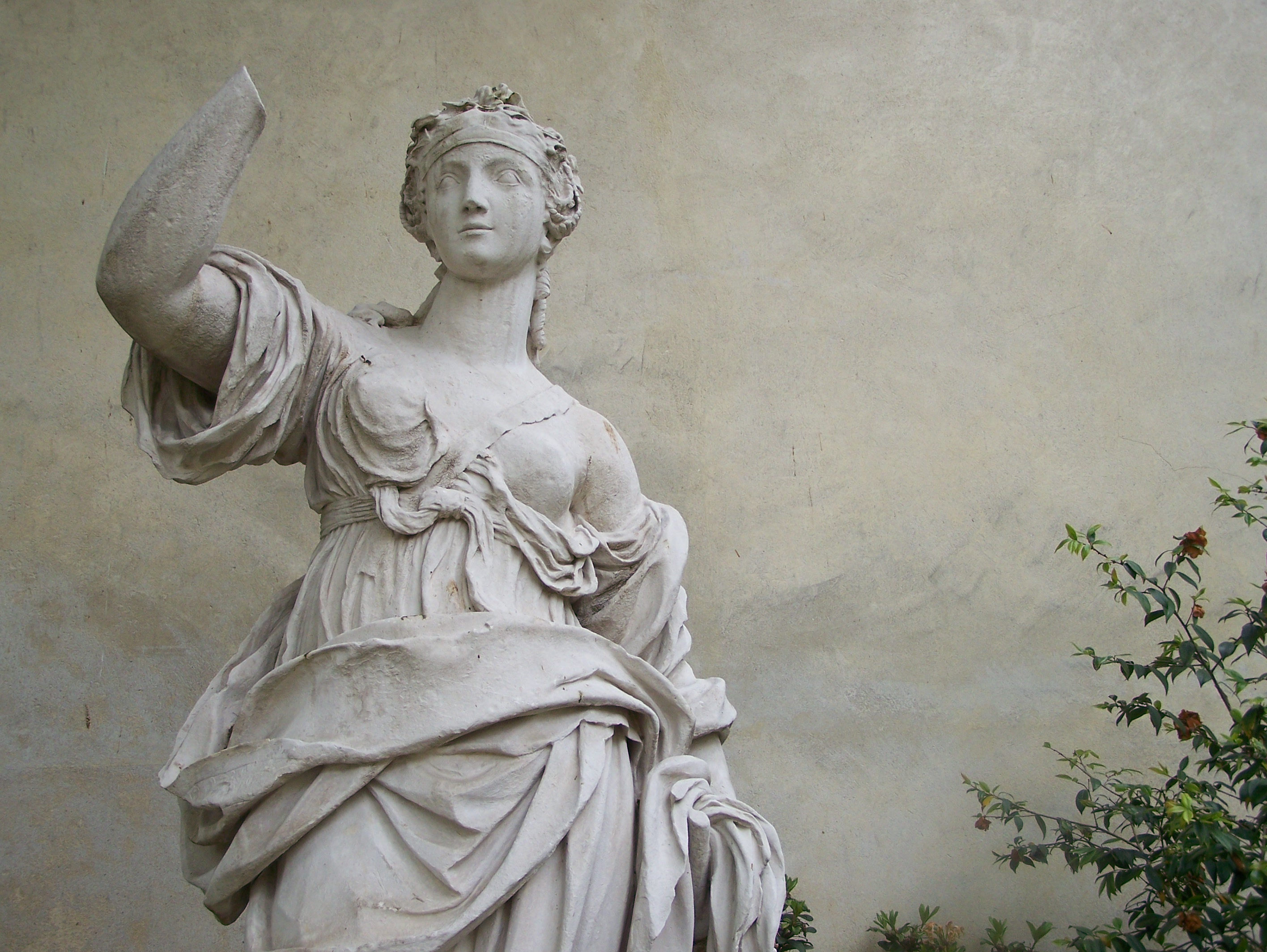 Square Léopold-Achille (Parc royal), rue du Parc-royal, Paris. Sculpture